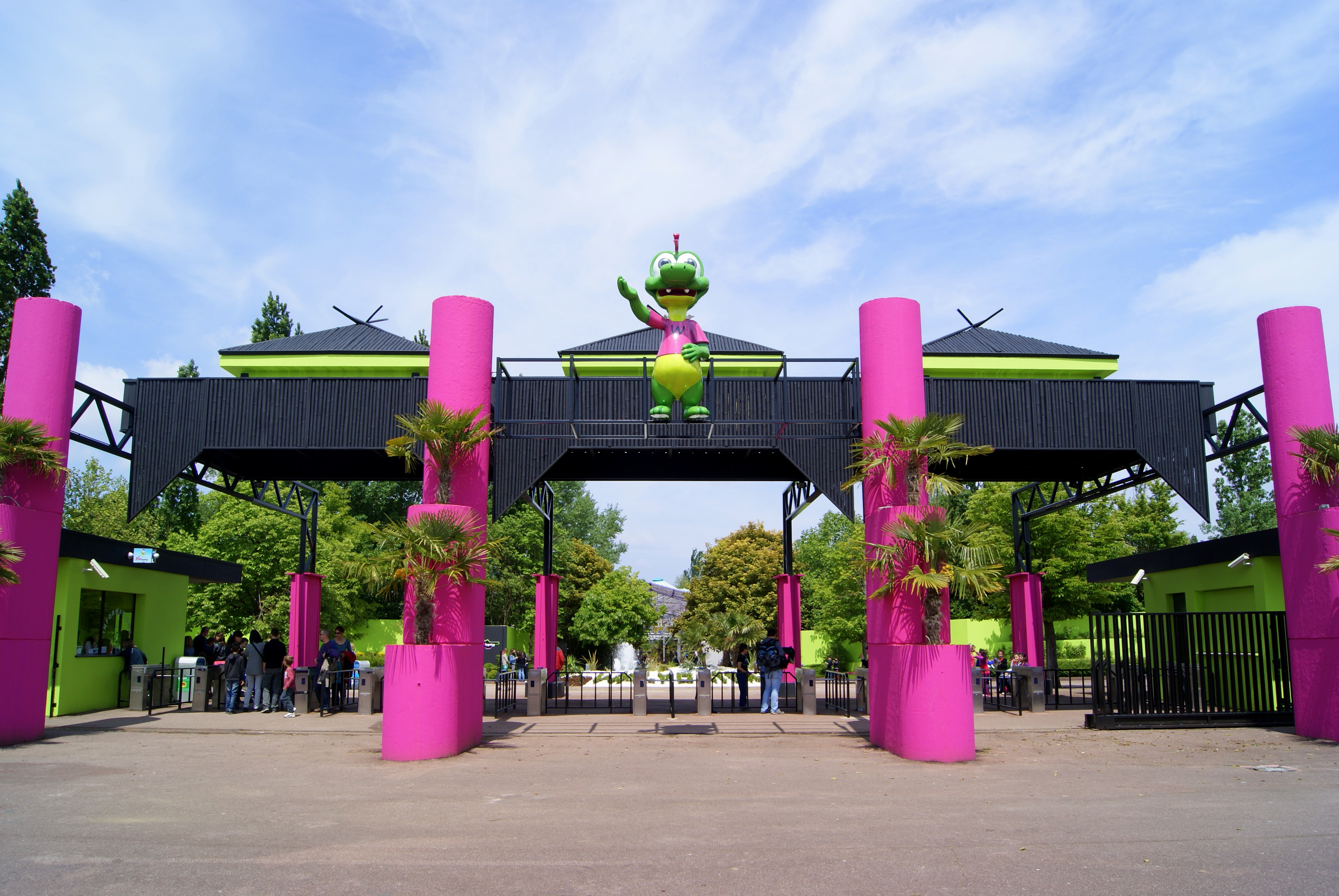 Main entrance of Walygator Parc